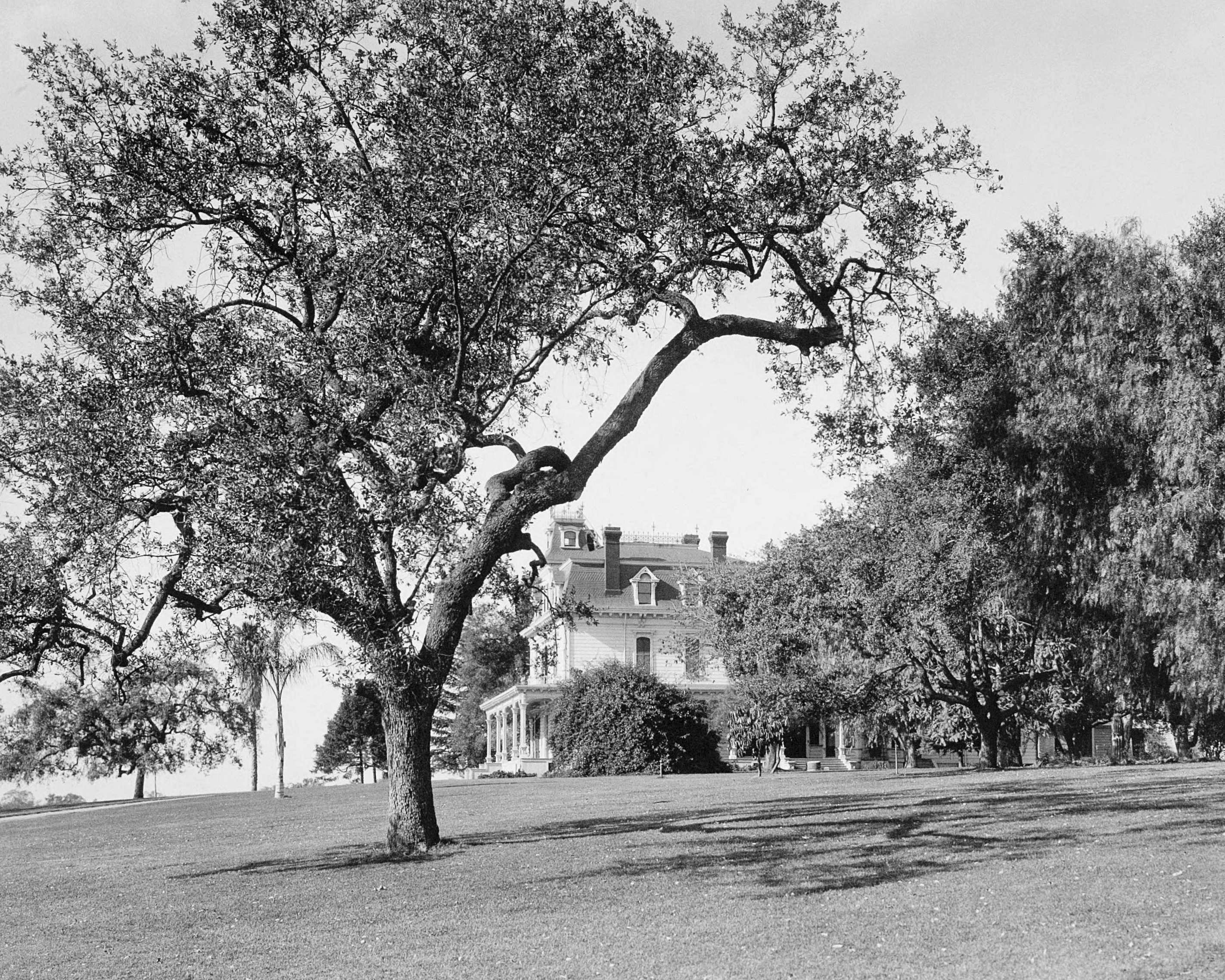 Side view of the exterior of Abbot Kinney's home, "Kinneloa", in Sierra Madre, ca.1905 Photograph of a side view of the exterior of Abbot Kinney's home, "Kinneloa", in Sierra Madre, ca.1905. The three-story house can be seen from the side facing left at center. A covered porch held up by a few columns can be seen in front of the home, while trees can be seen in a line at right. A few other trees are scattered amongst the grass lawn, which is visible from the foreground to the background. A portion of a road is visible in the bottom left corner.